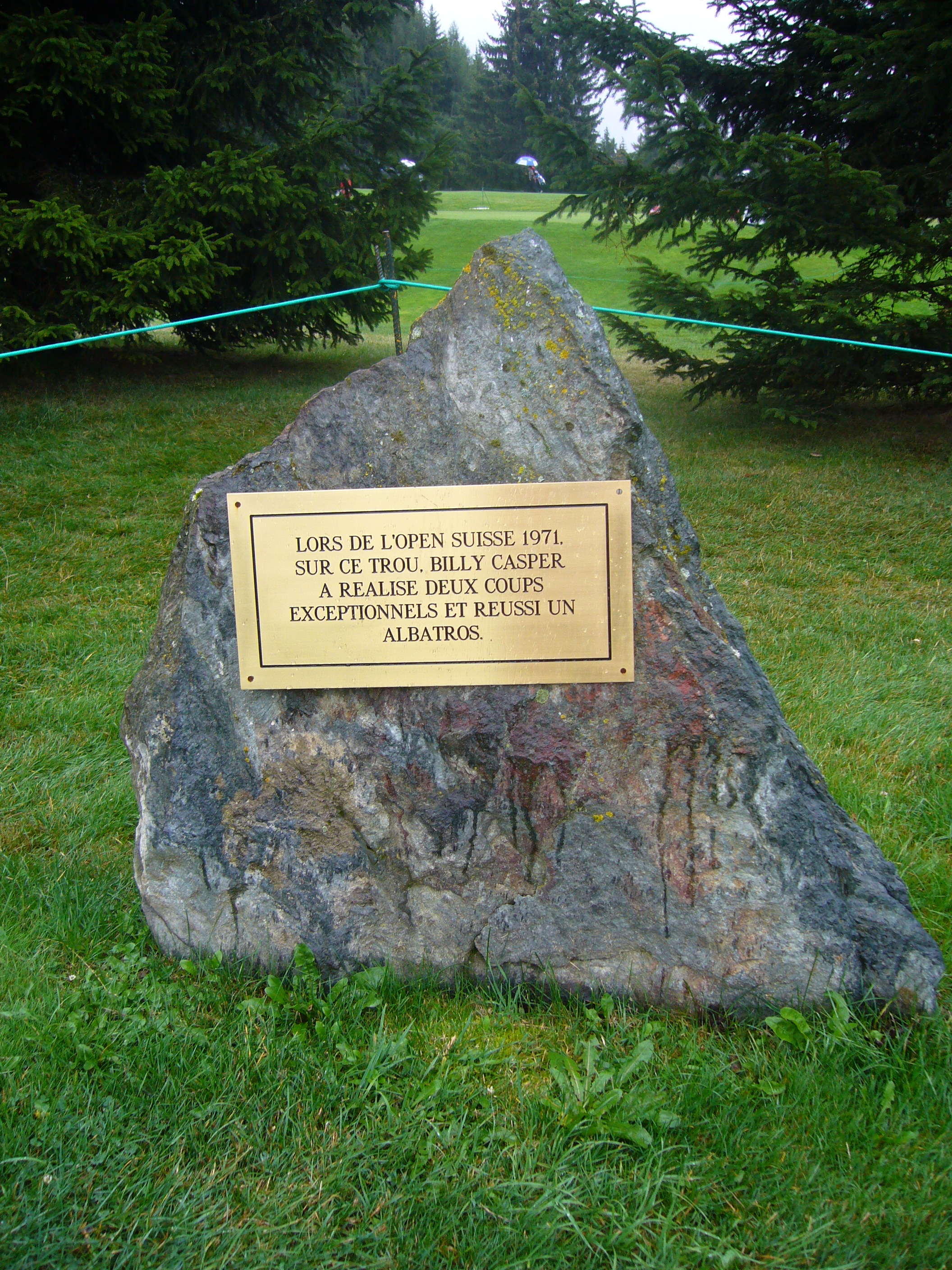 Crans Golf, hole 14, commemorating an albatros